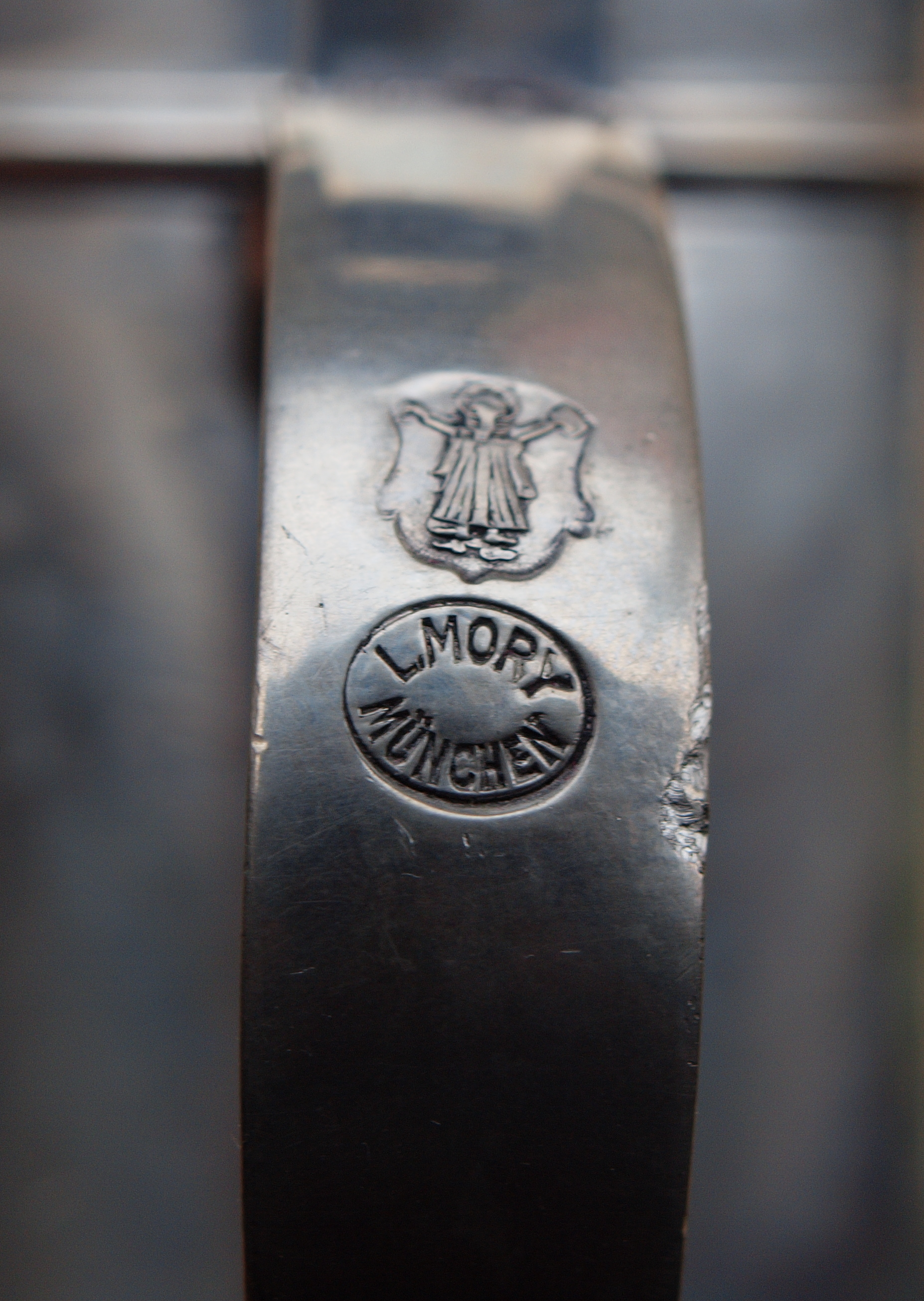 Ludwig Mory München Zinnmarke